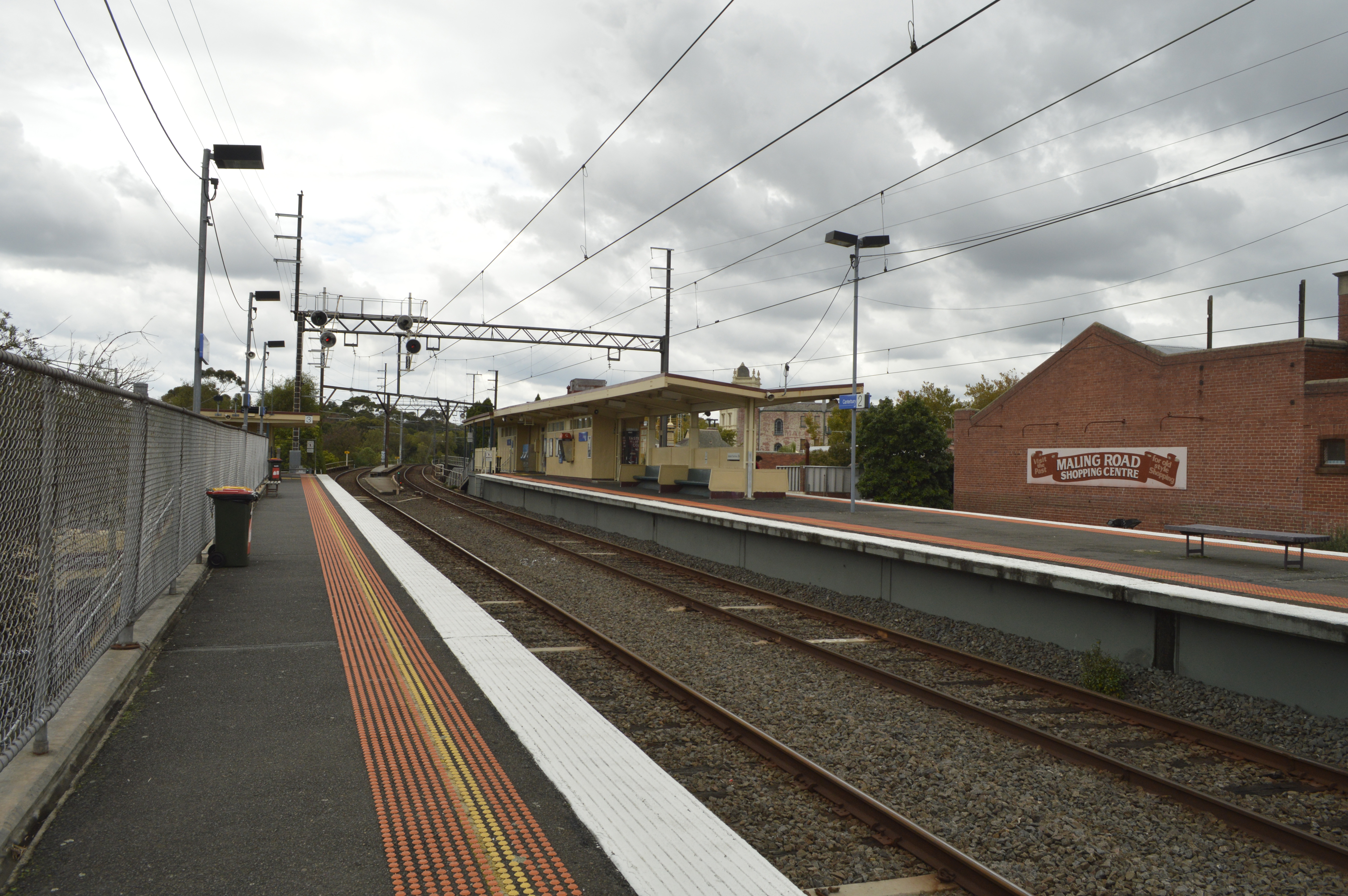 View from platform 3 looking east.